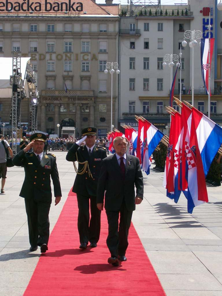 President of the Republic of Croatia during Statehood Holiday (2007)